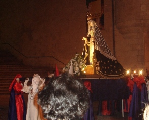 andas Espinas Burgos San Lorenzo Cristo Señora Amor Hermoso